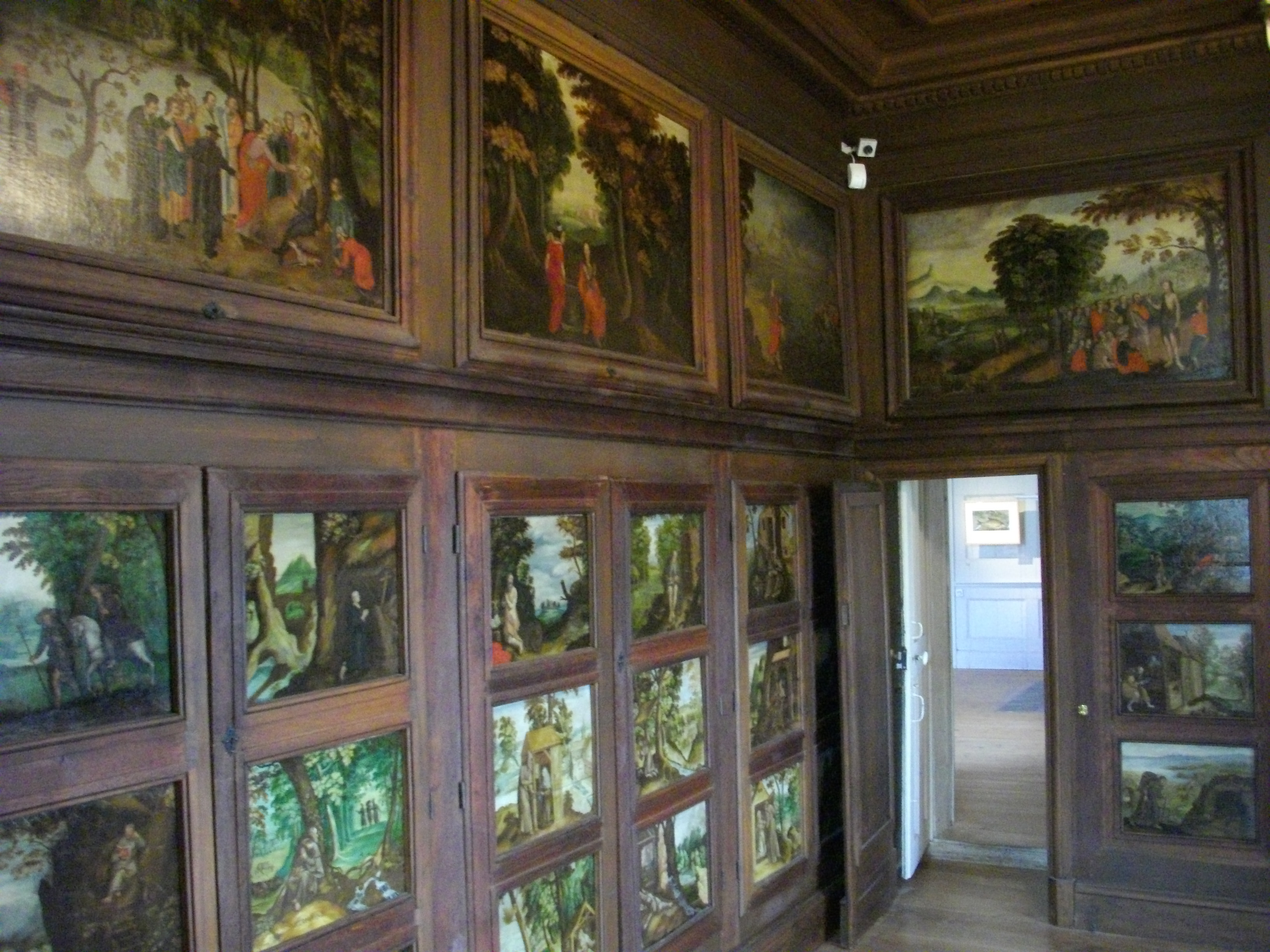 "Pères du Désert" (Desert's Fathers) Office, Château-Gaillard, Vannes, France